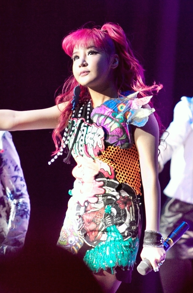 2NE1 performing live in concert in Hanoi, Vietnam.